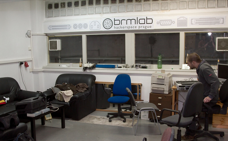 prostory prazskeho a prvniho ceskeho hackerspace Brmlab